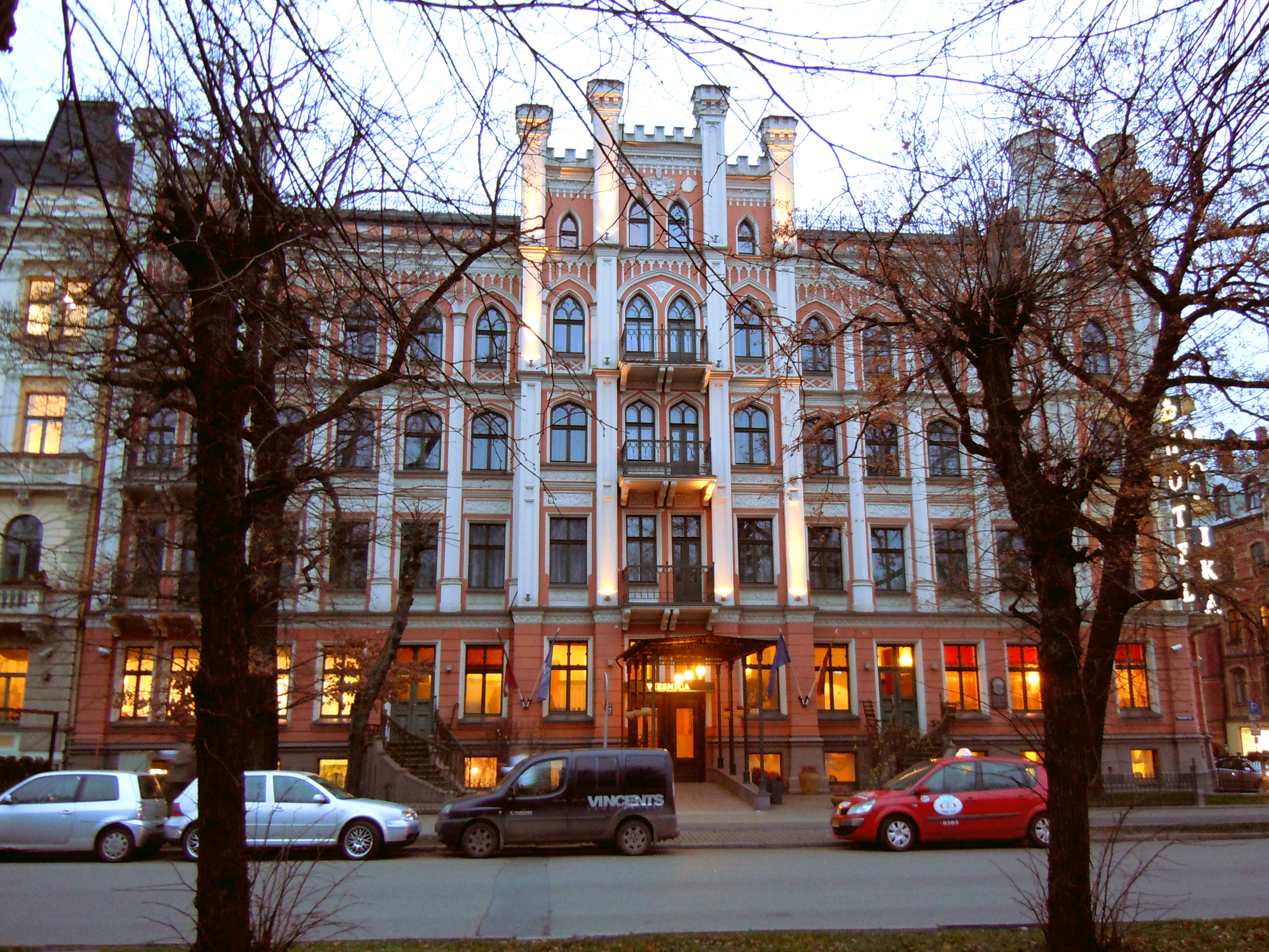 Riga. Elizabetes street 21.